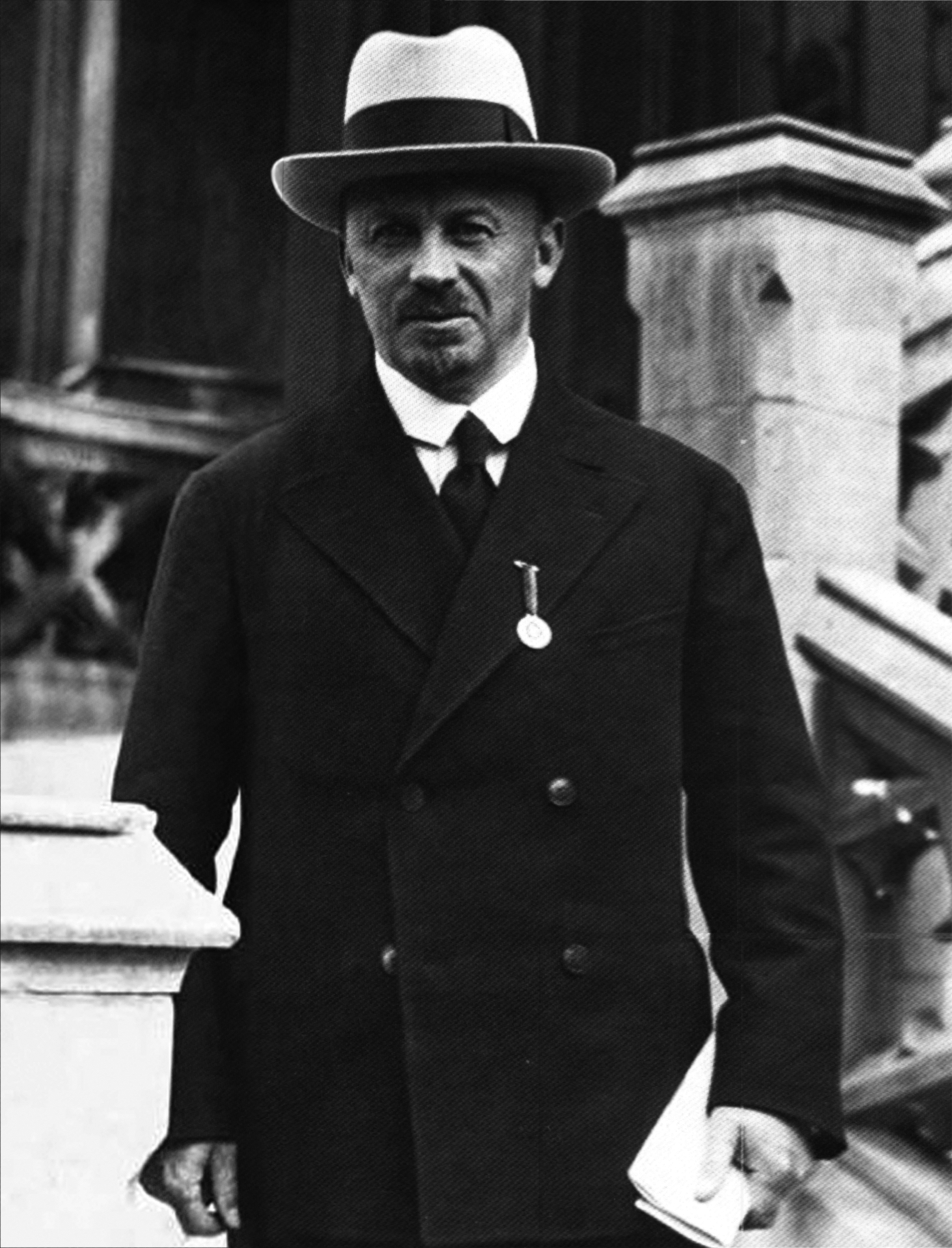 Bukharin pictured at the 1931 Congress of the History of Science in London.